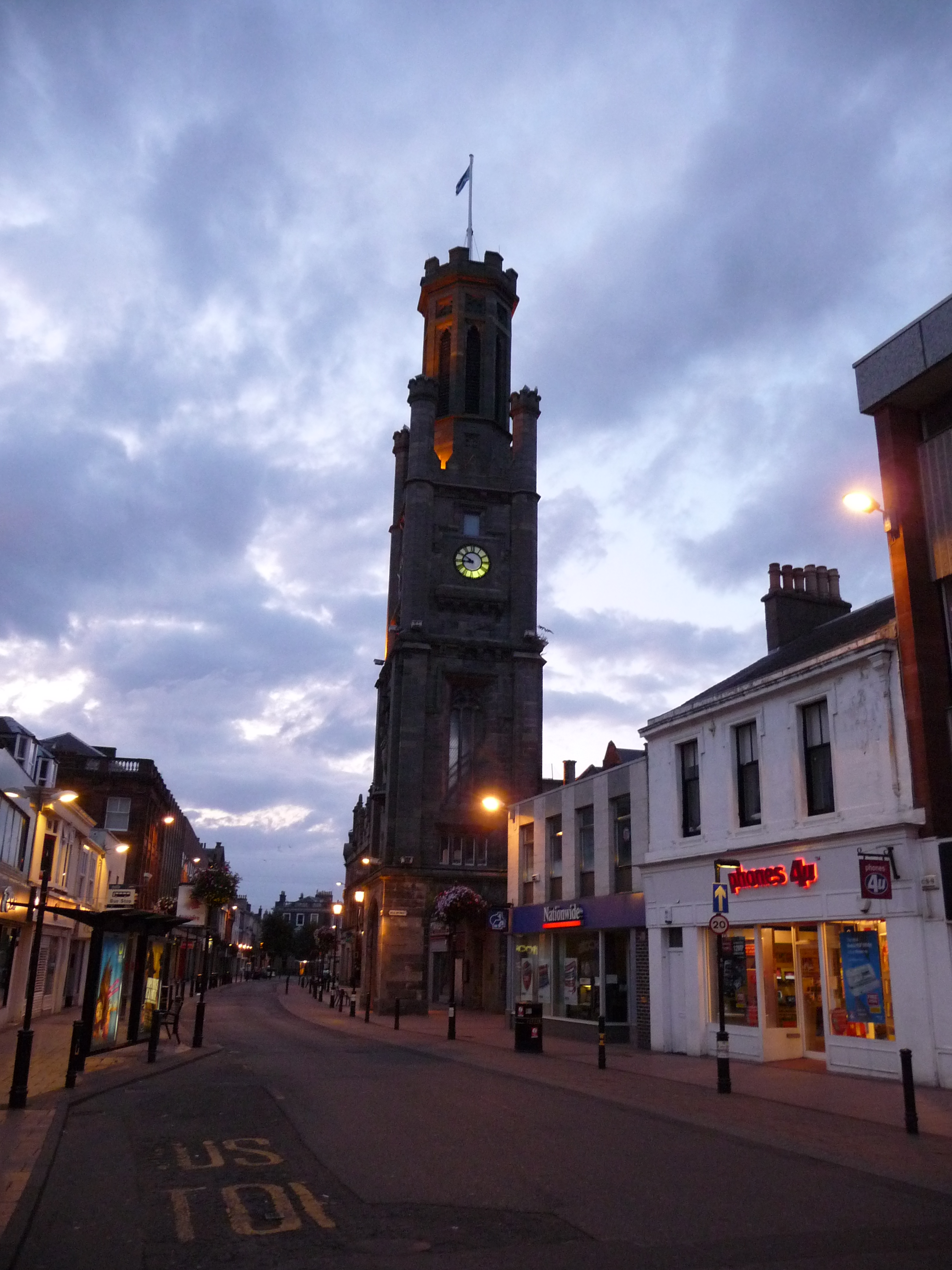 "The Wallace Tower" in Ayr